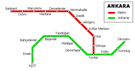 map of the Ankara metro (heavy metro and "Ankaray" light metro)